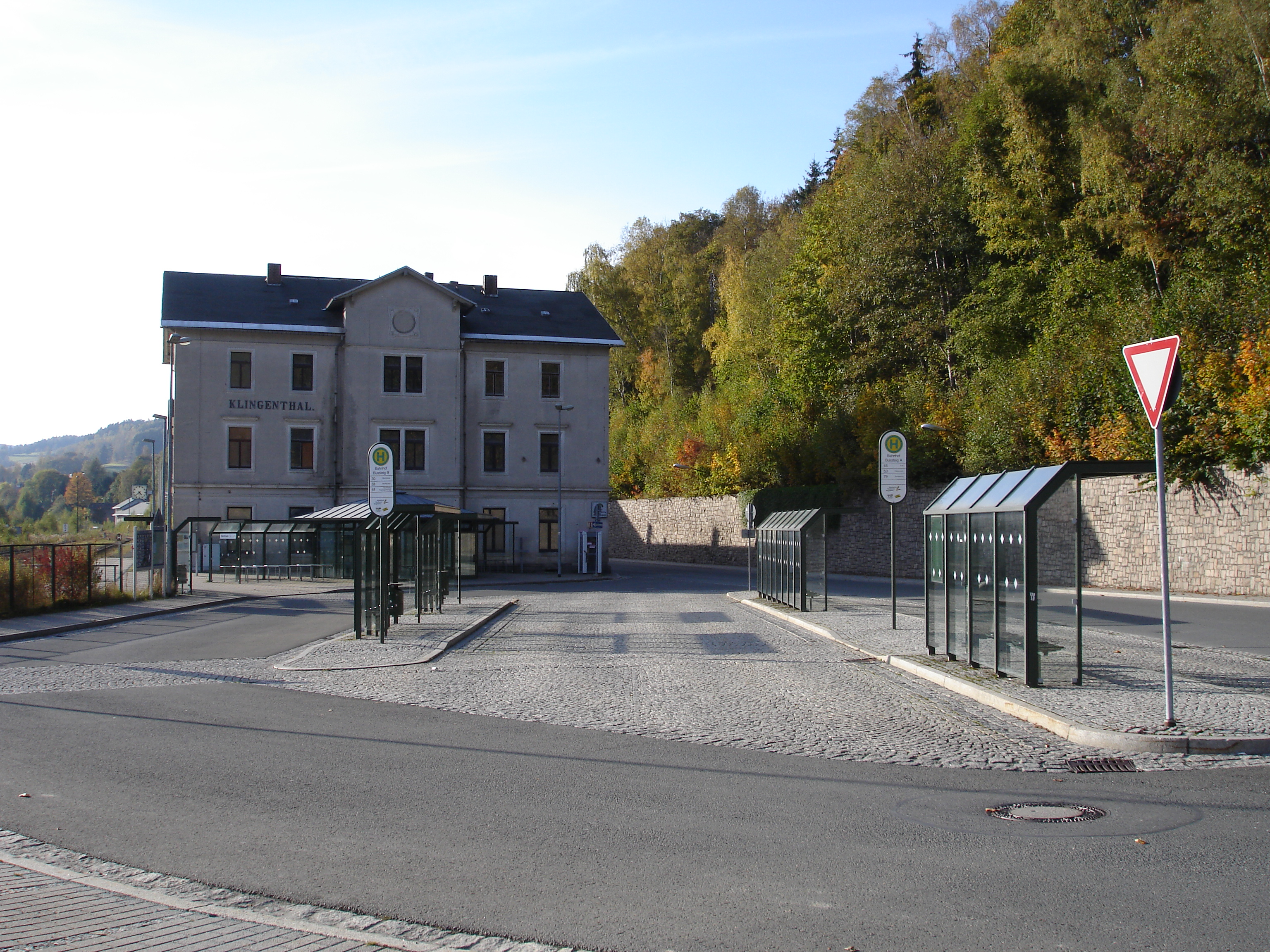 station Klingenthal, Saxony, Germany